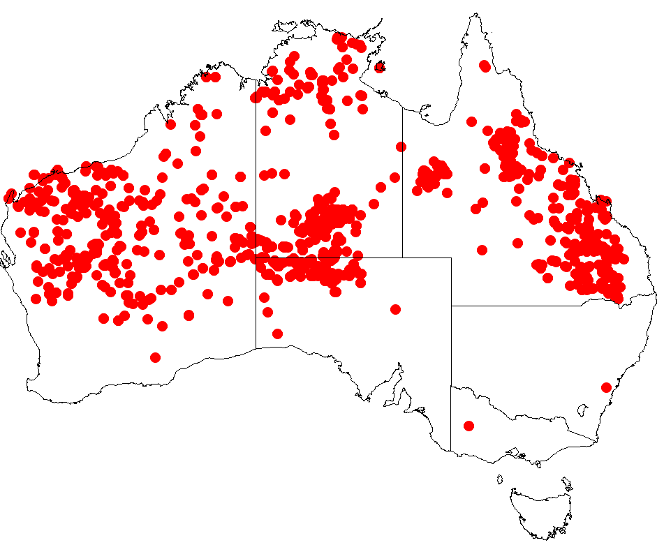 Hakea lorea Occurrence data downloaded from Australasian Virtual Herbarium on 22 November 2018 using